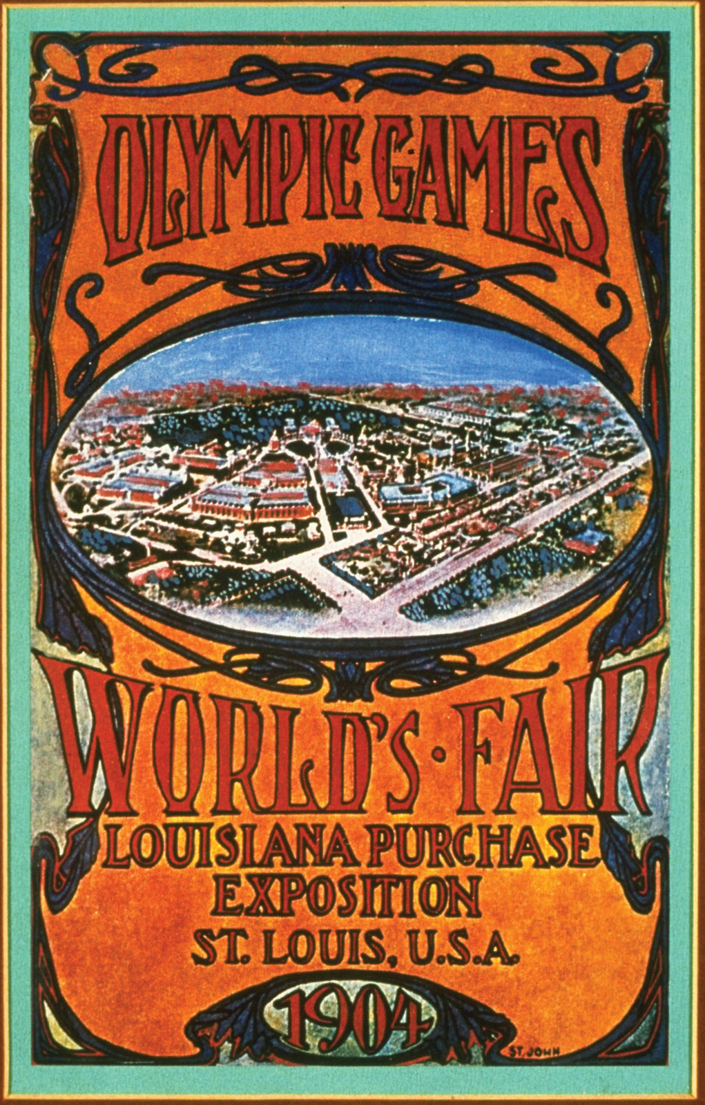 Poster for the 1904 Summer Olympics in St. Louis, United States. The Games were hosted at the Louisiana Purchase Exposition, and the cover of the expo’s daily program was used for the poster.